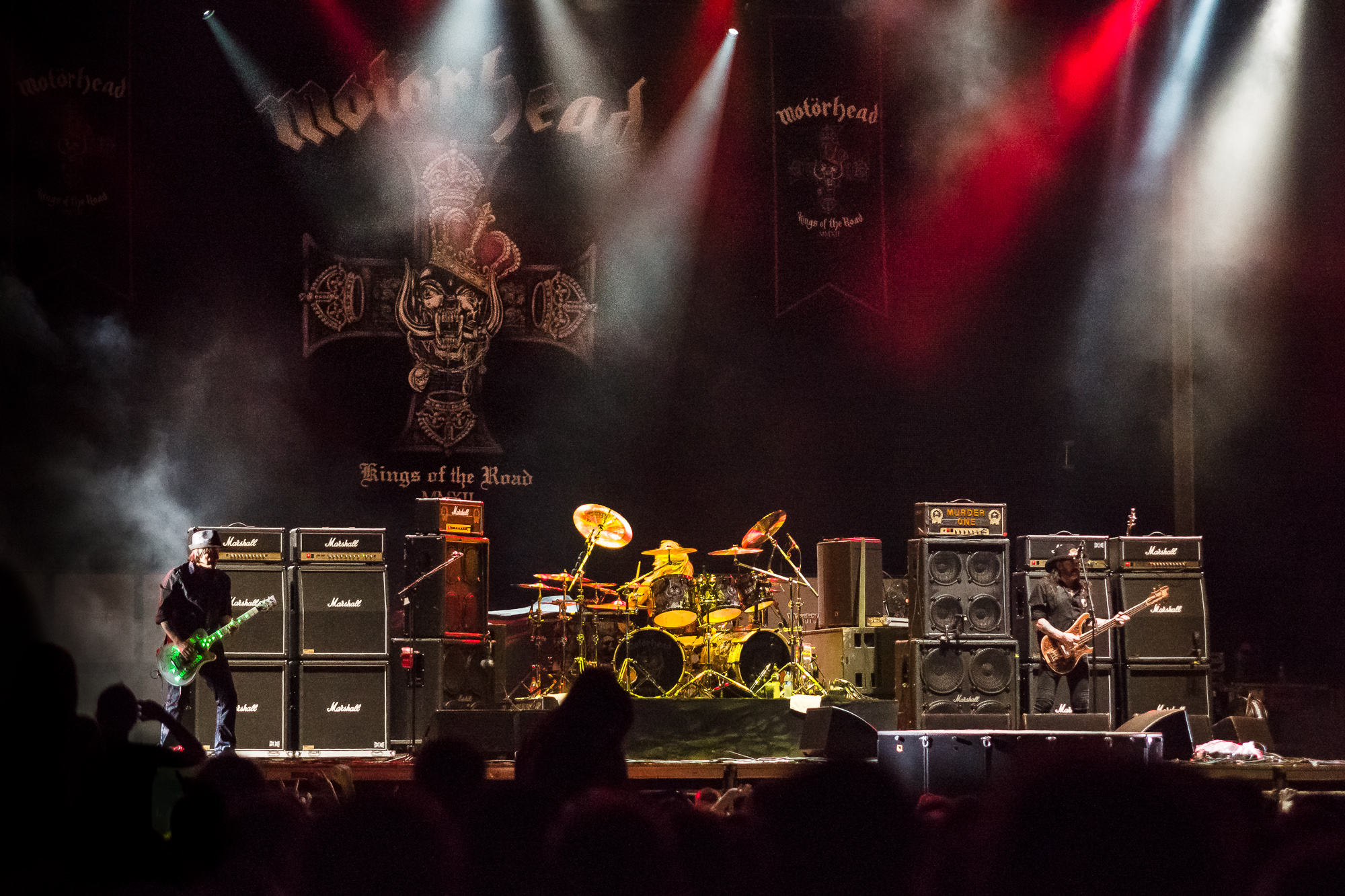 Motorhead band during a gig at Ursynalia 2013 Warsaw Student Festival, Poland. This photo was taken with Sony SLT-A77 camera, thanks to cooperation with Sony Poland.You can see all photographs in category Taken with Sony SLT-A77. English | polski | +/−